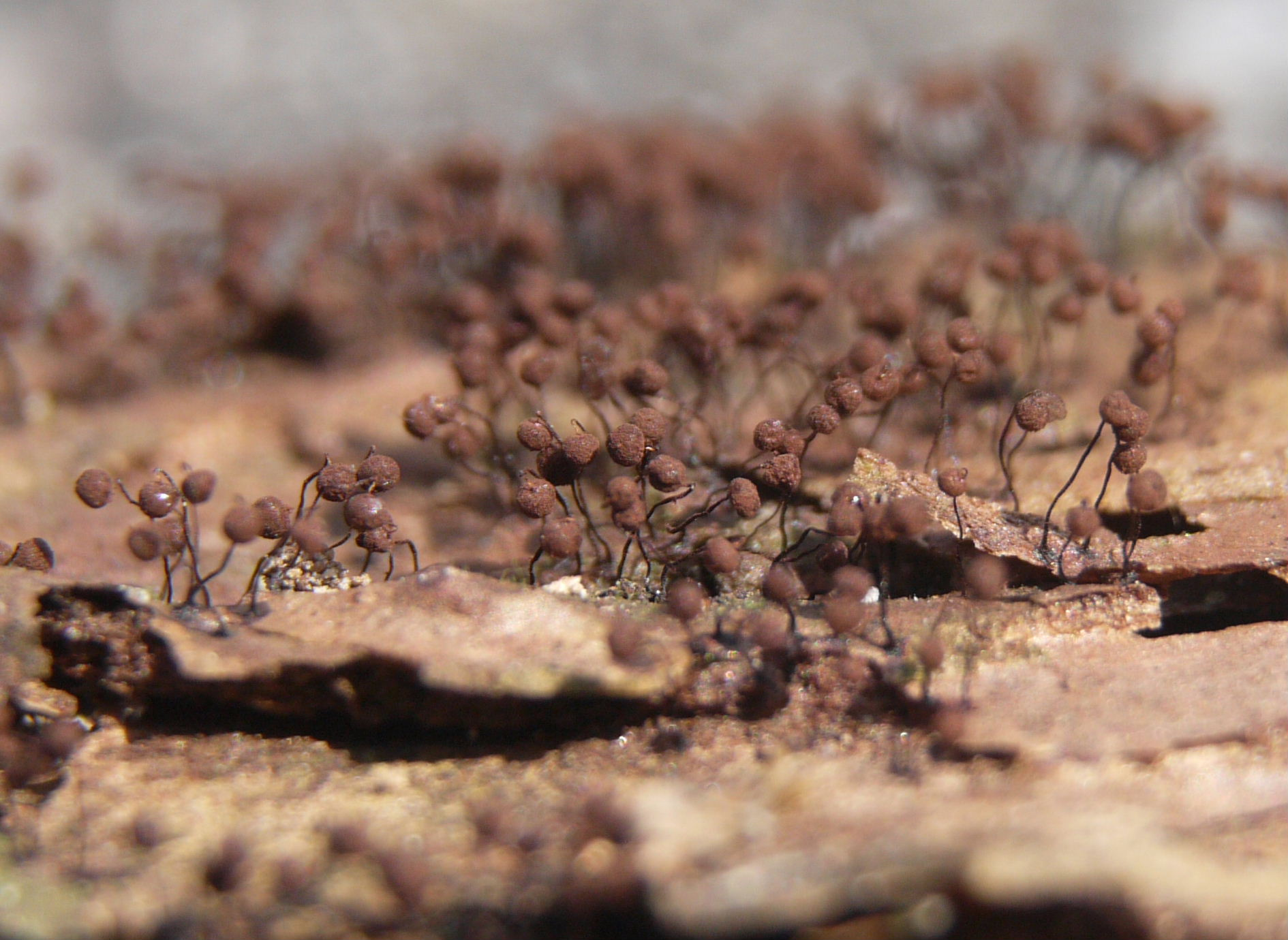 Cribraria cancellata (Cribrariaceae) Japanese name:Kumonosuhokori：クモノスホコリ Date;2009,08.22;Tanabe City, Wakayama prefecture, Japan Author;Keisotyo